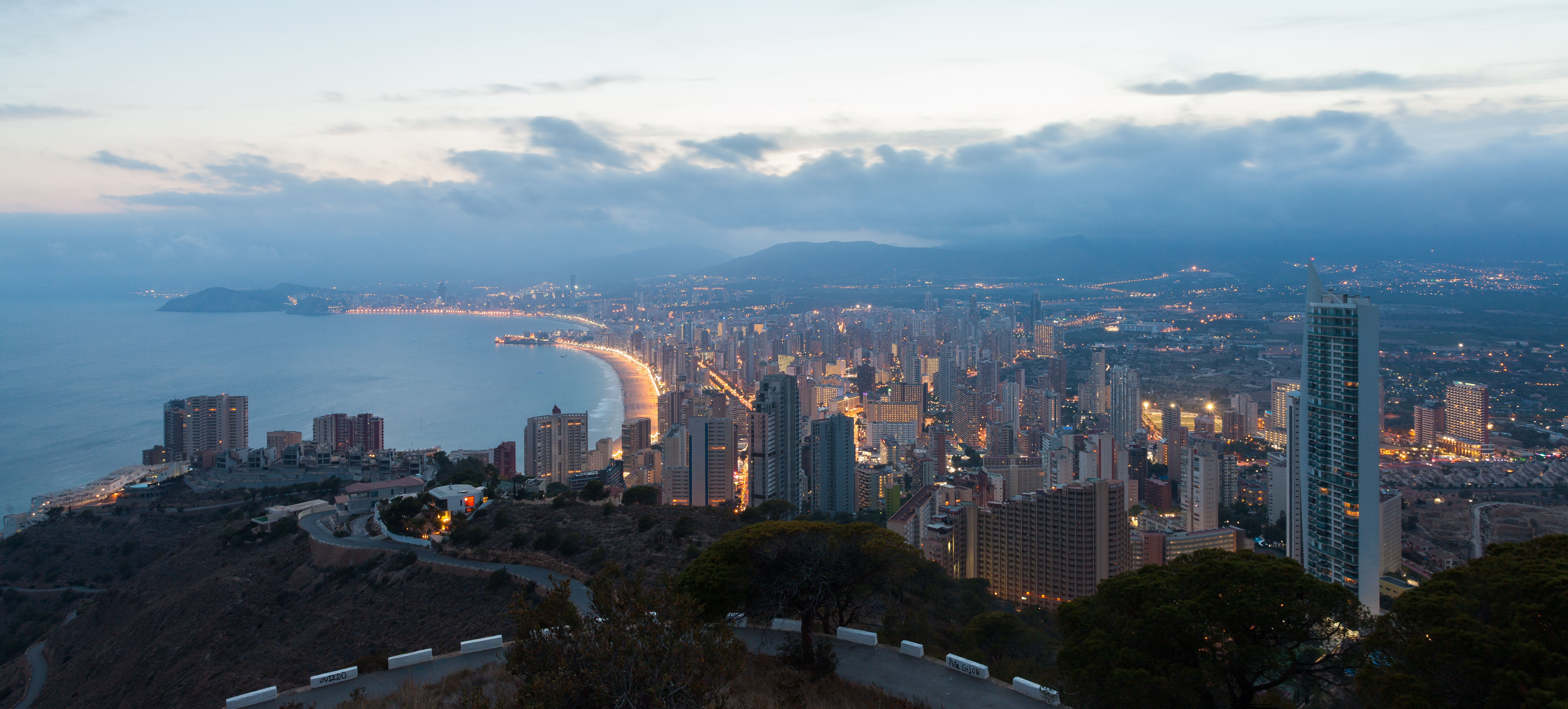 View of Benidorm, Spain